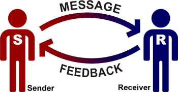 Robert M. Thomas 2007-03-30, Basic Elements of Interpersonal Communications, small, reworked graphic, public domain Romith 23:46, 30 March 2007 (UTC)